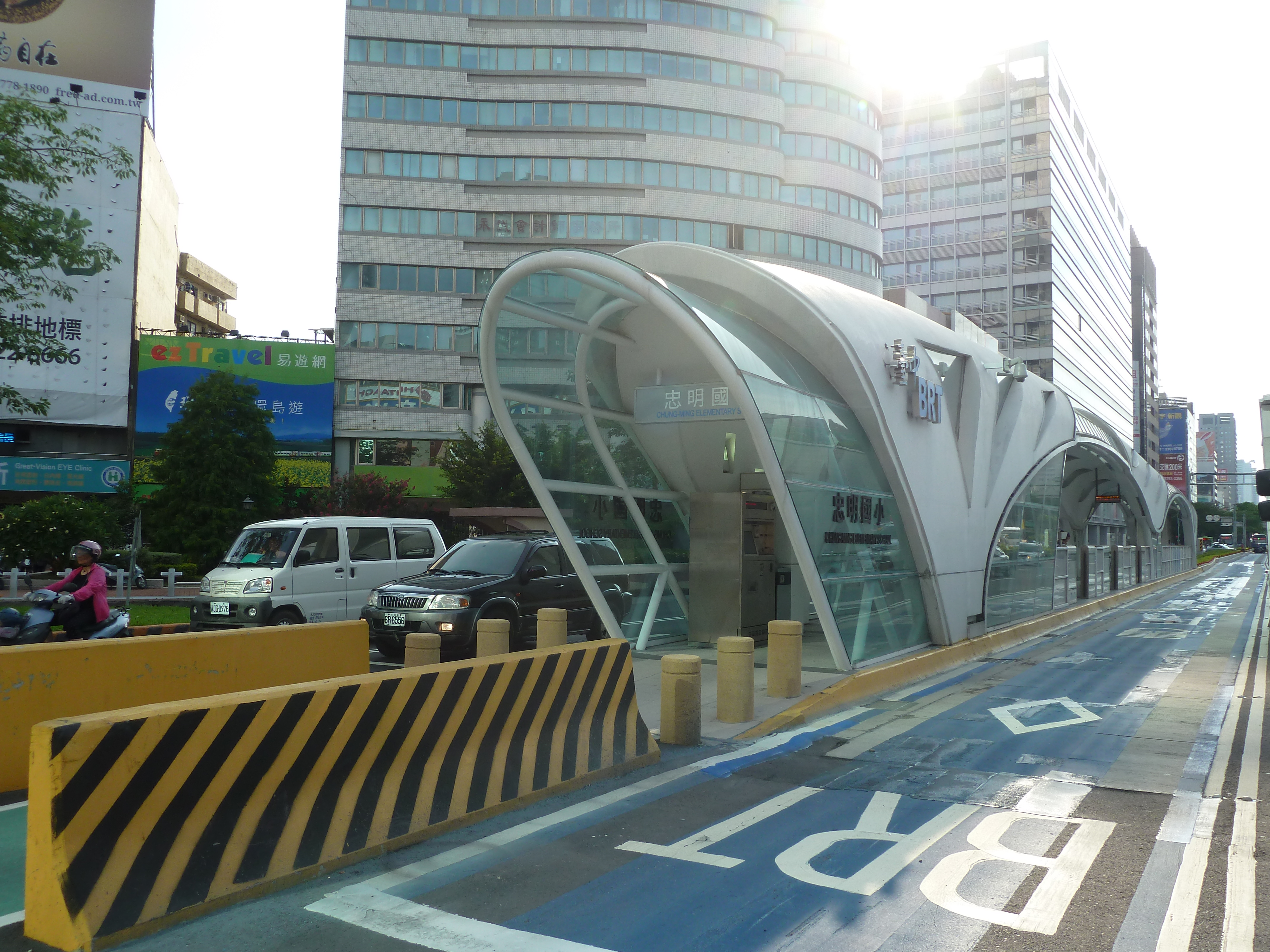 Taichung BRT Chung-Ming Elementary School Station